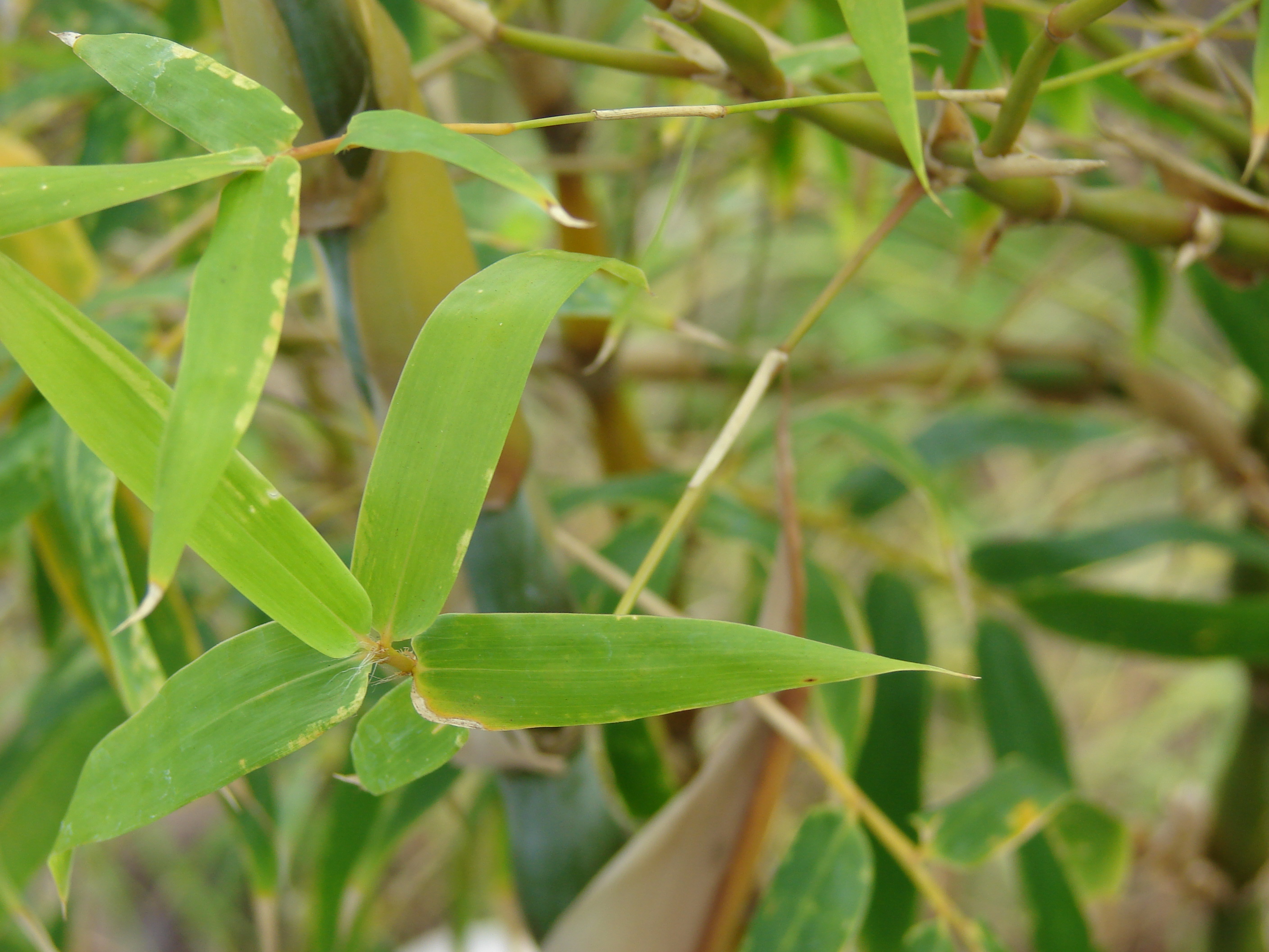 Bambusa ventricosa (leaves). Location: Maui, Kula Ace Hardware and Nursery